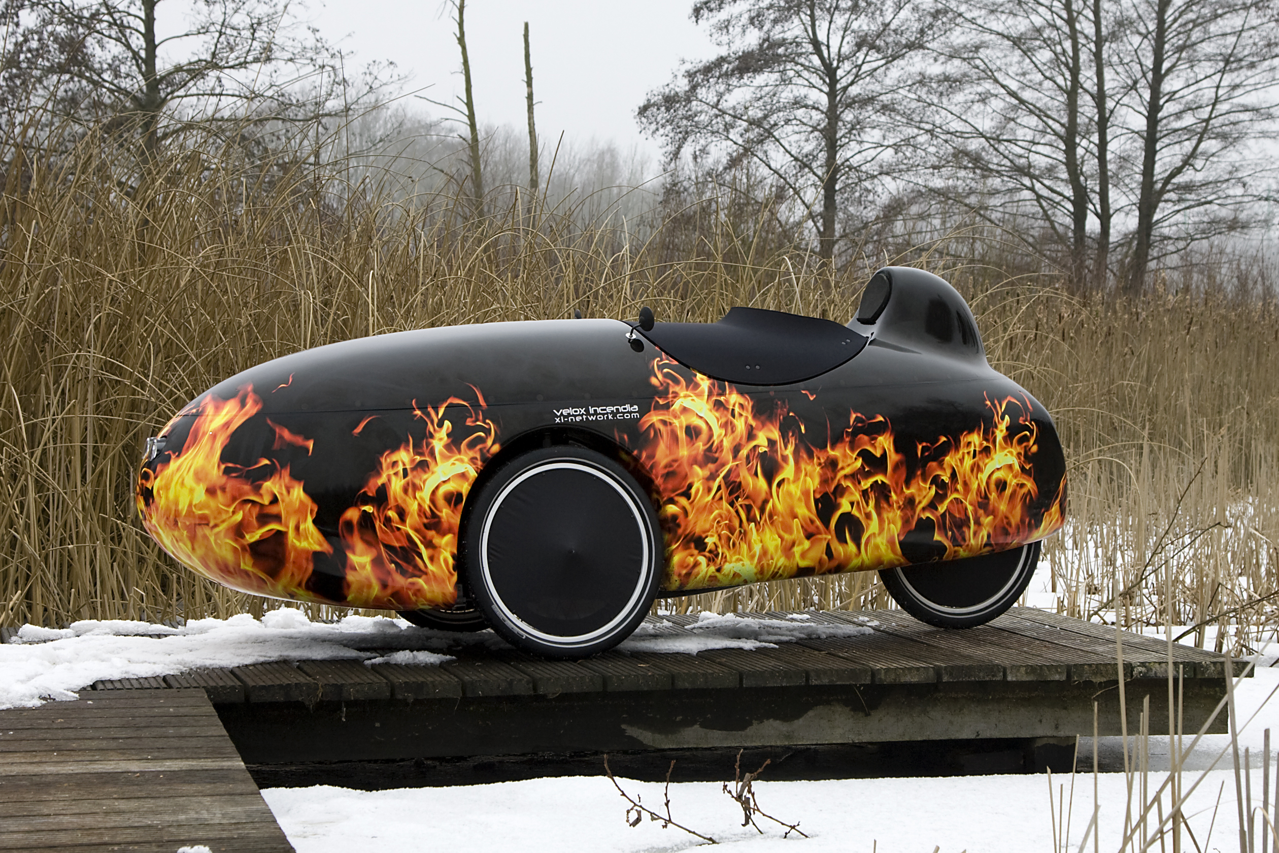 A picture of a Sinner Mango+ velomobile with a custom flame sticker across the body of the bike. The bike is called Velox Incendia, which is Latin for "fast fire".